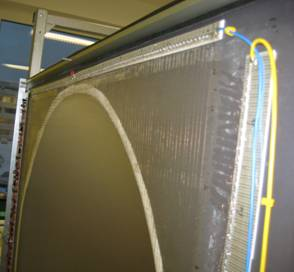 Back site of Multitouch Globe create on base of Projected Capacitive Touch (PCT) technology. For more information please look: multitouch